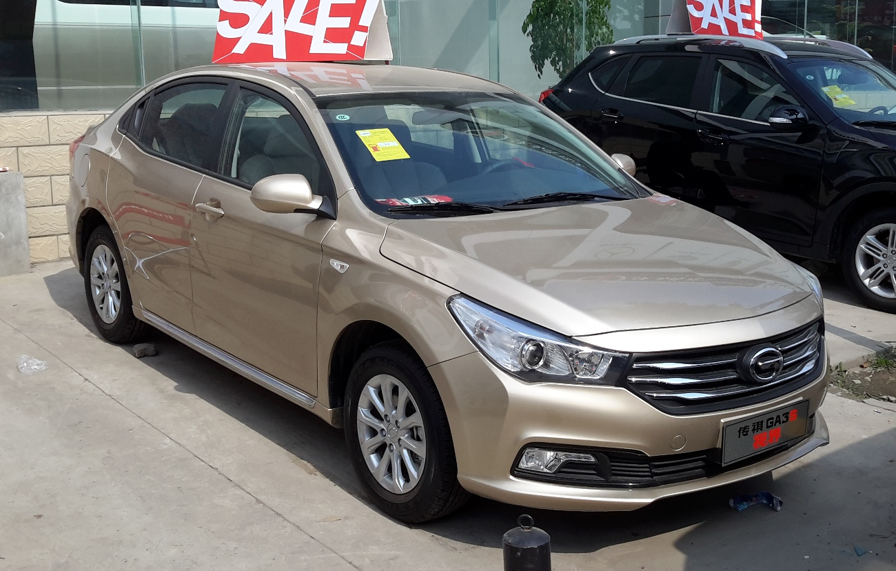 GAC Trumpchi GA3S photographed in Xi'an, Shaanxi province, China.